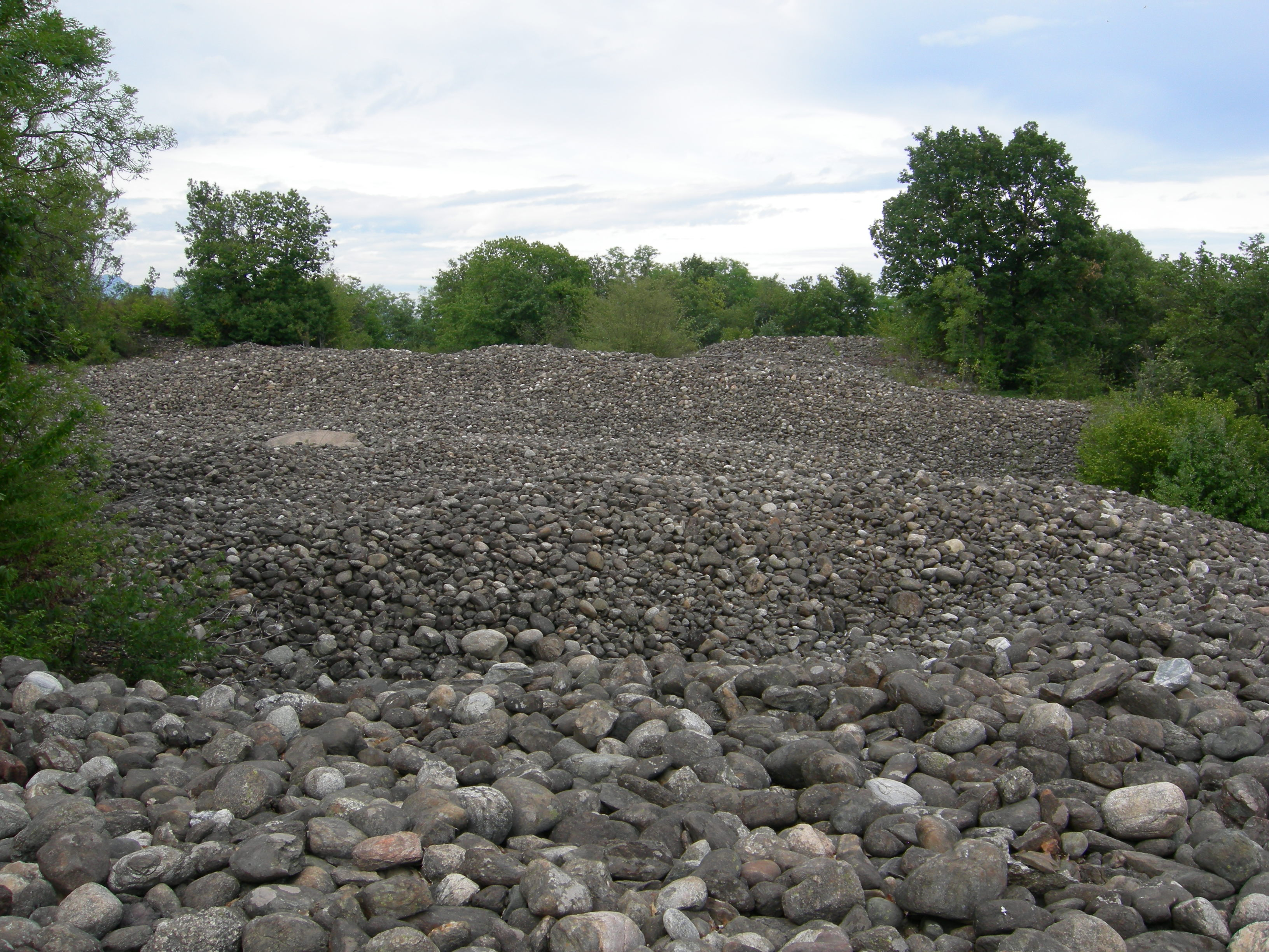 The quite odd scenery at the Bessa Regional Park near Biella (ITALY)